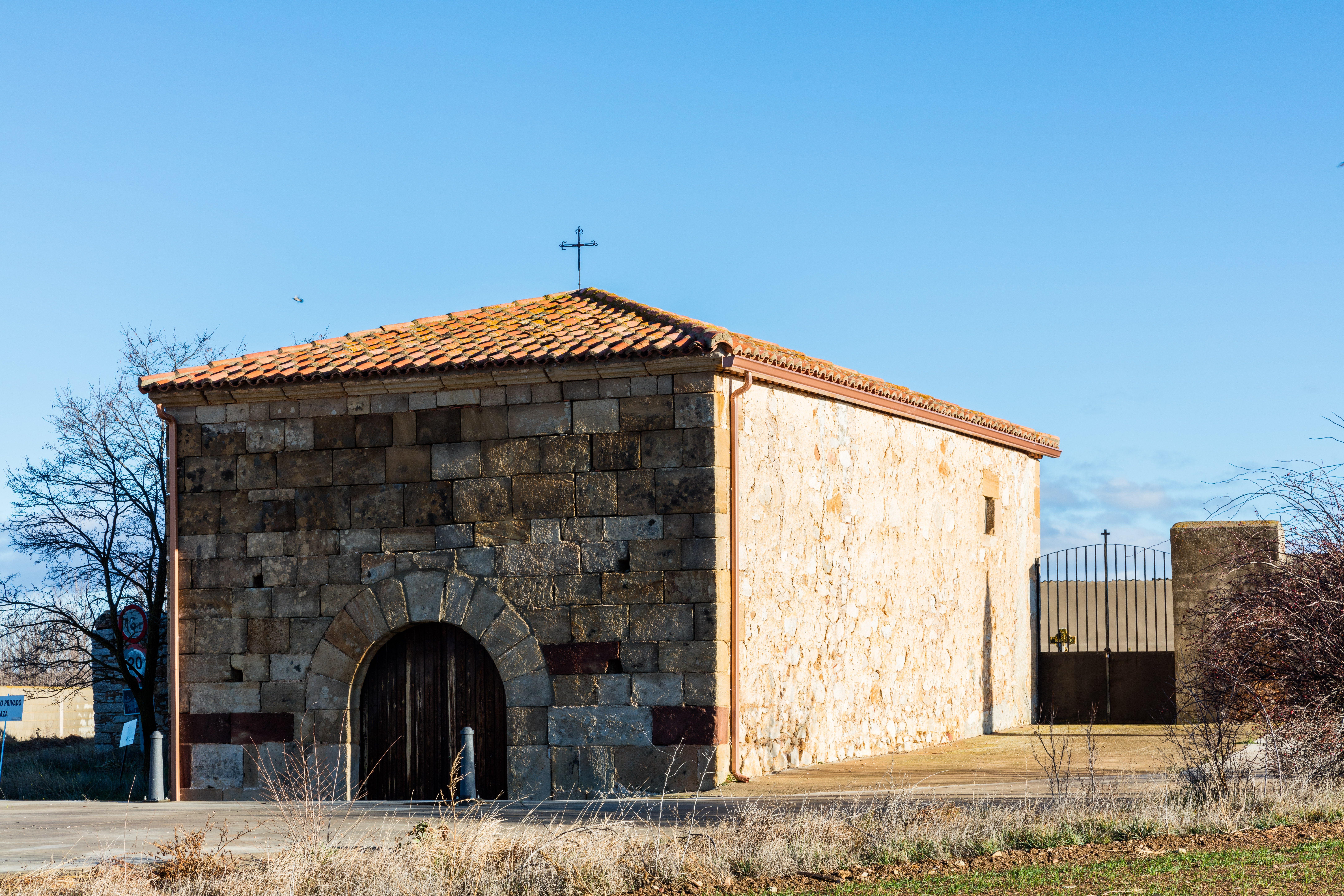 Hermitage of la Soledad, Torrubia, Guadalajara, Spain